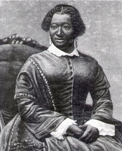 Elizabeth Taylor Greenfield (1824–March 31, 1876), dubbed "The Black Swan", African American singer considered the best-known black concert artist of her time.